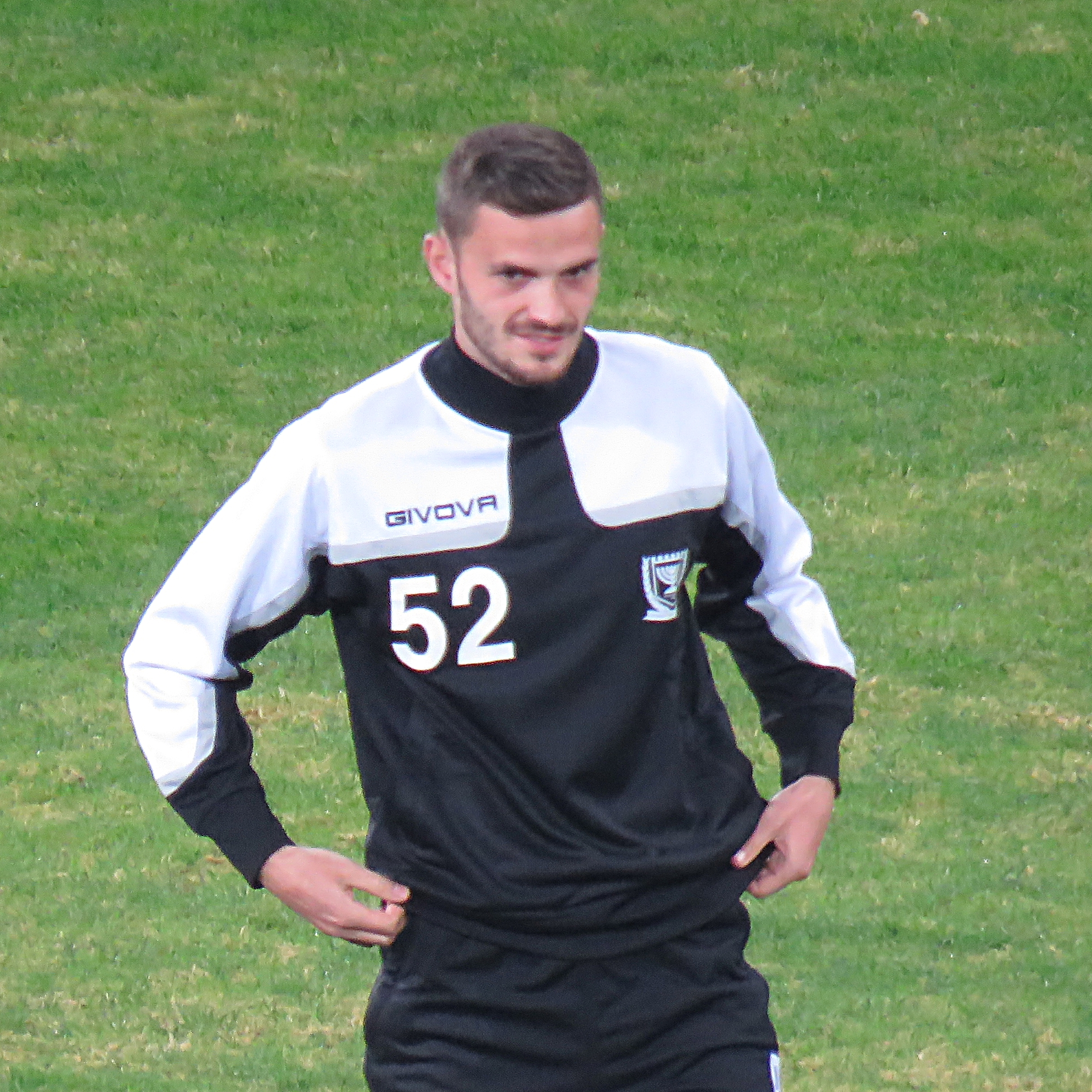 December 2016